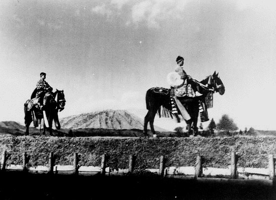 Chagu Chagu Umako Festival circa 1934